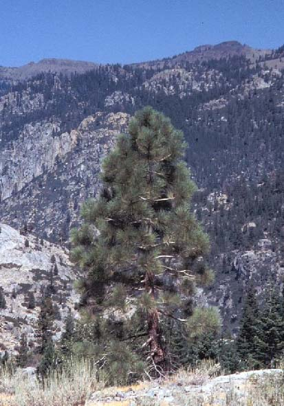 Young Pinus jeffreyi in Stanislaus National Forest, California.